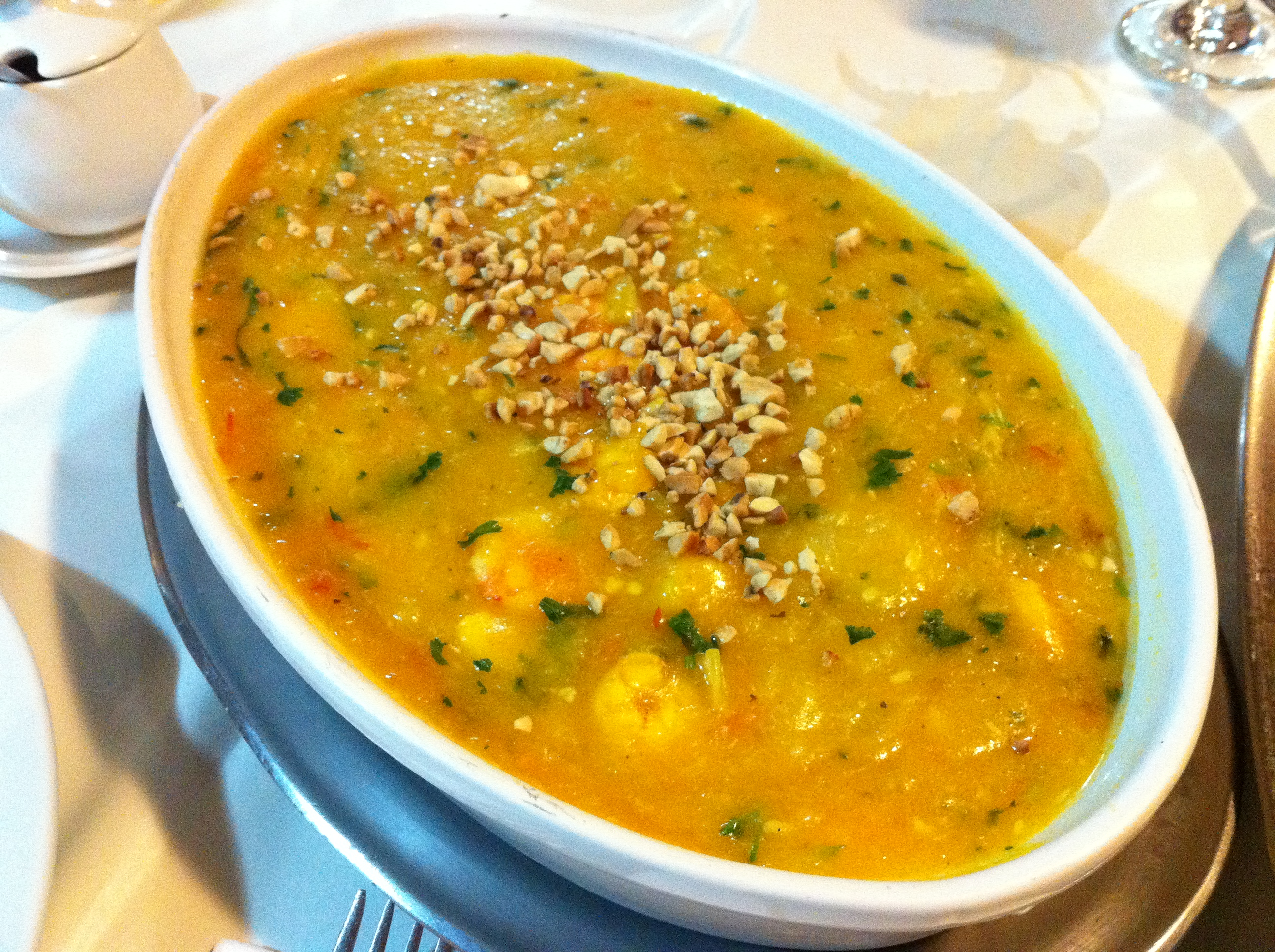 Bobo, A dish from Brazil